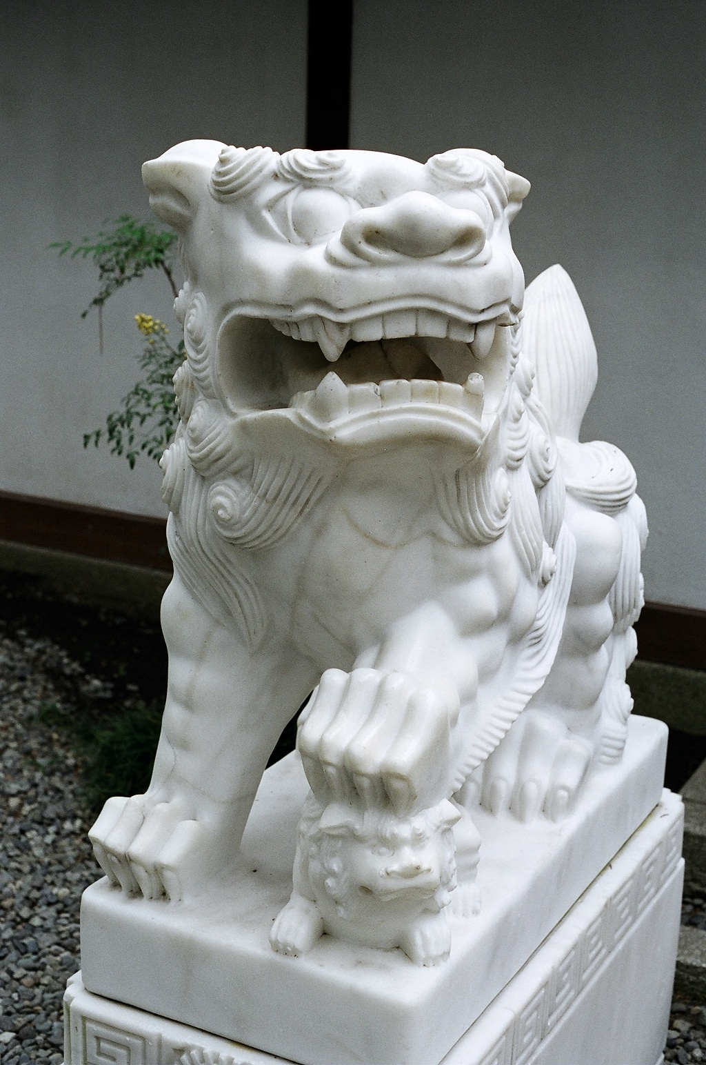 Lions in front of Kamakura temple.